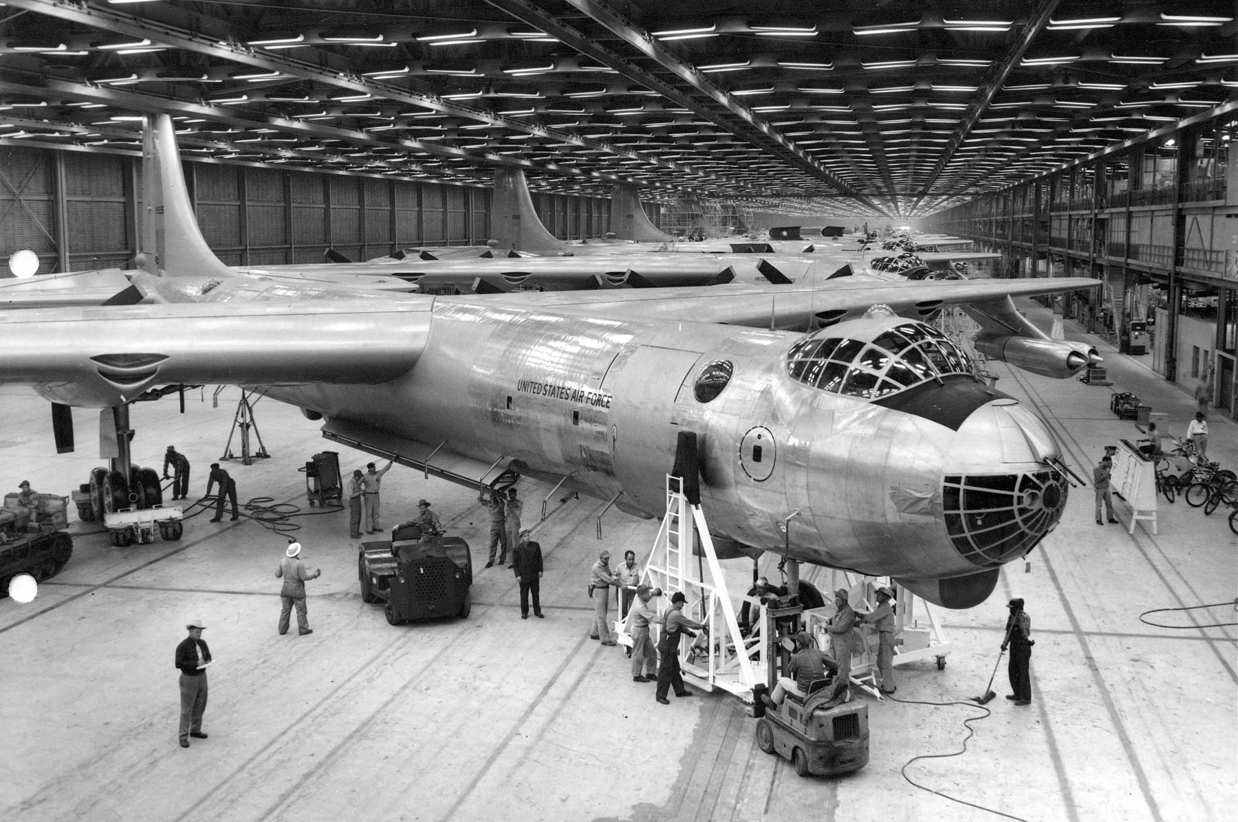 RB-36Ds in Convairs Aircraft plant.